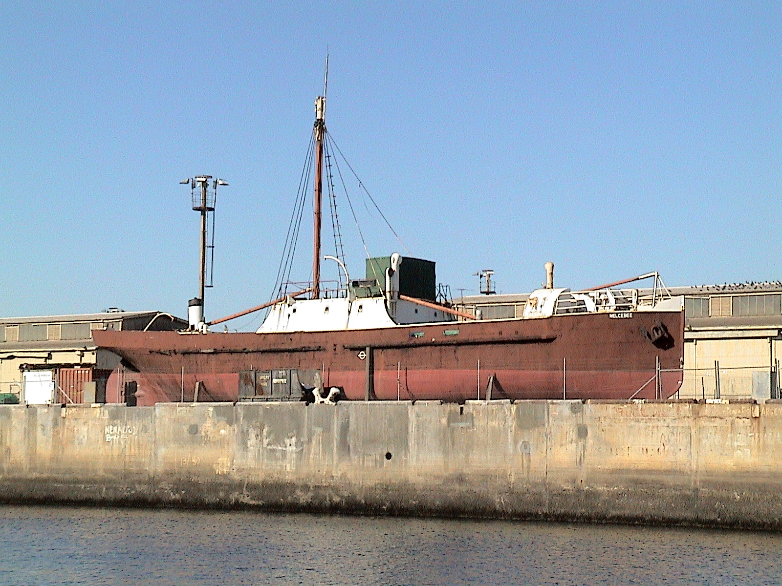 Ketch Nelcebee on hardstand at Dock 2, Port Adelaide, South Australia